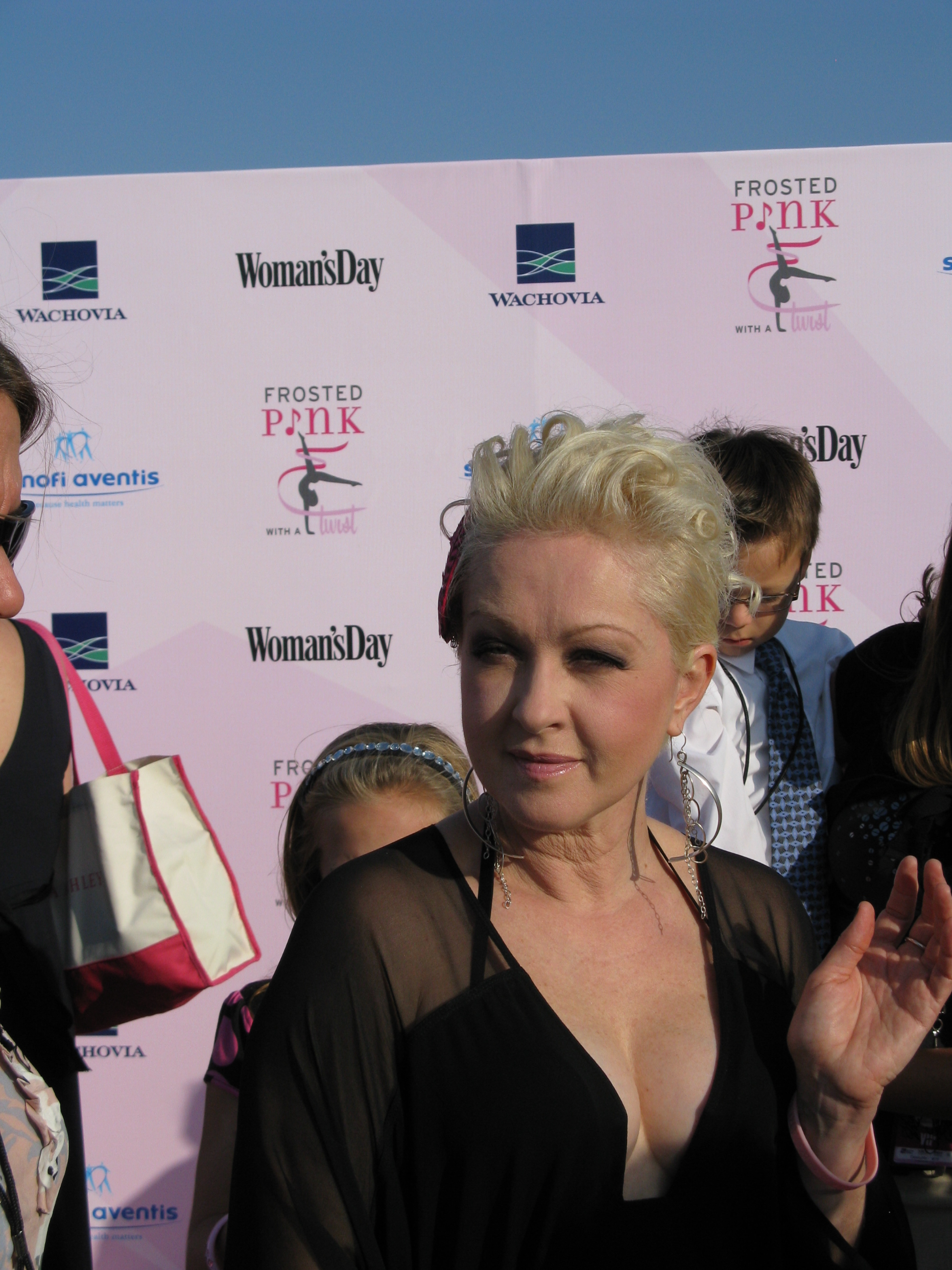 San Diego, California on September 14th, 2008